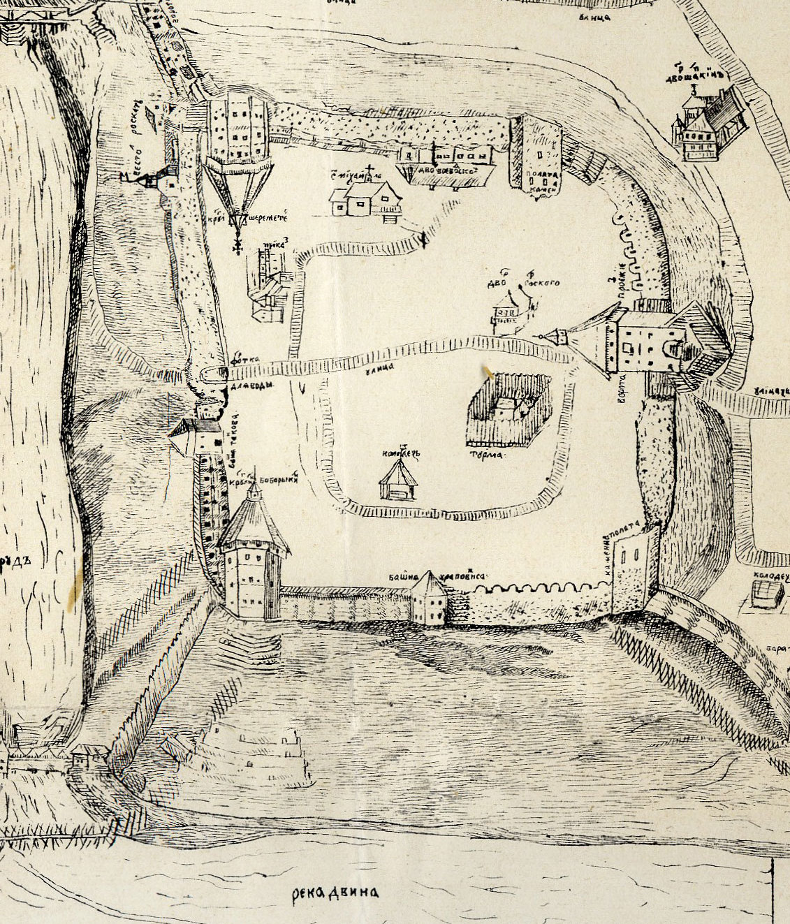 Viciebsk in 1664, drawing